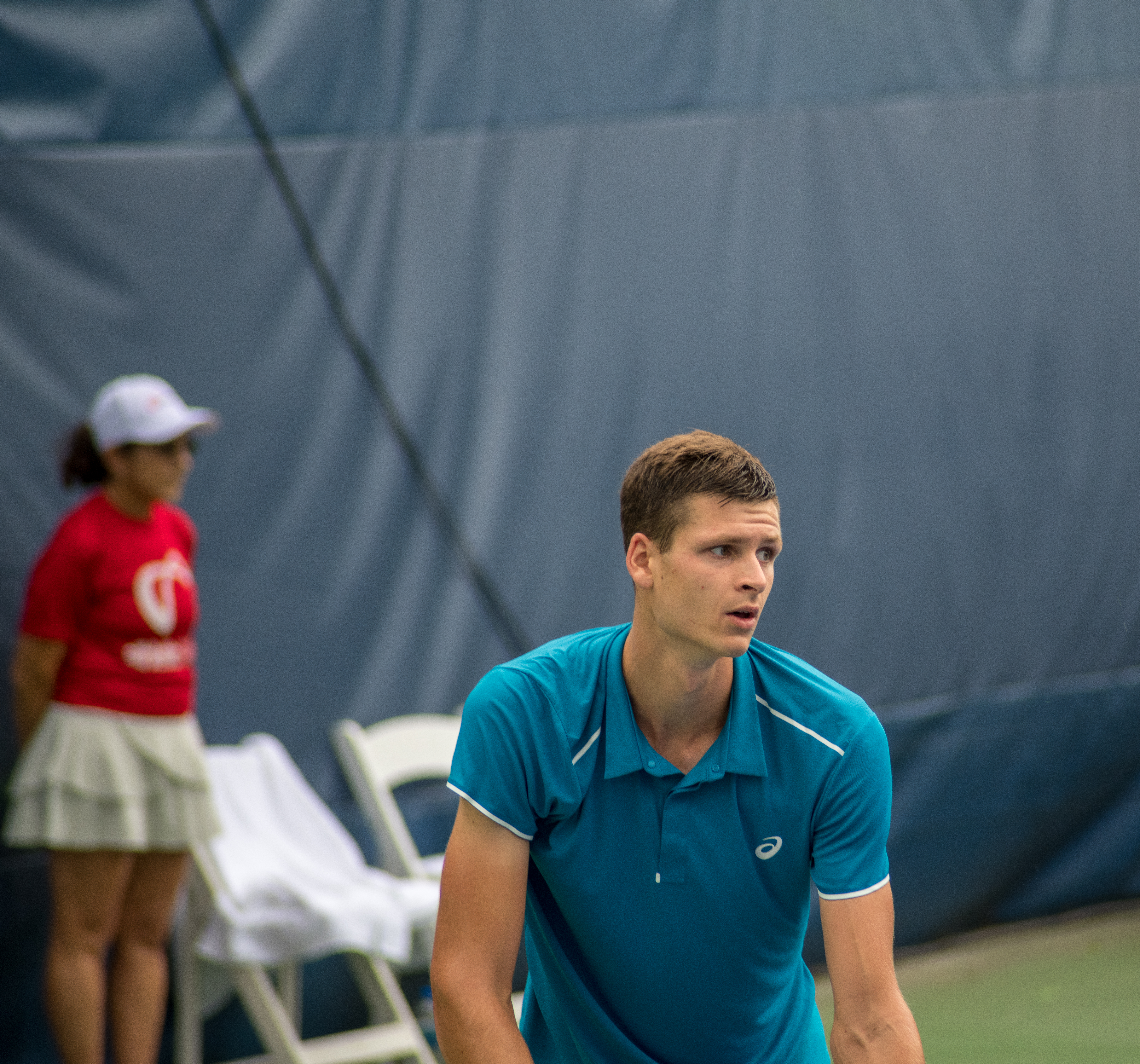 Citi Open 2018 Round of 64